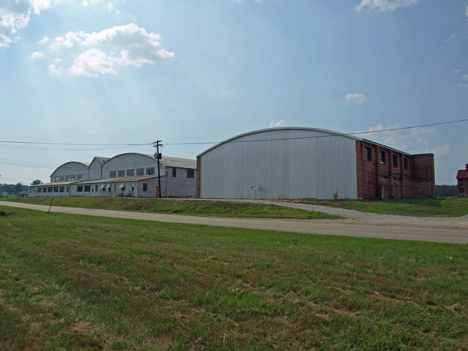 Historic aircraft hangers at Gragg-Wade Field in Clanton, Alabama.